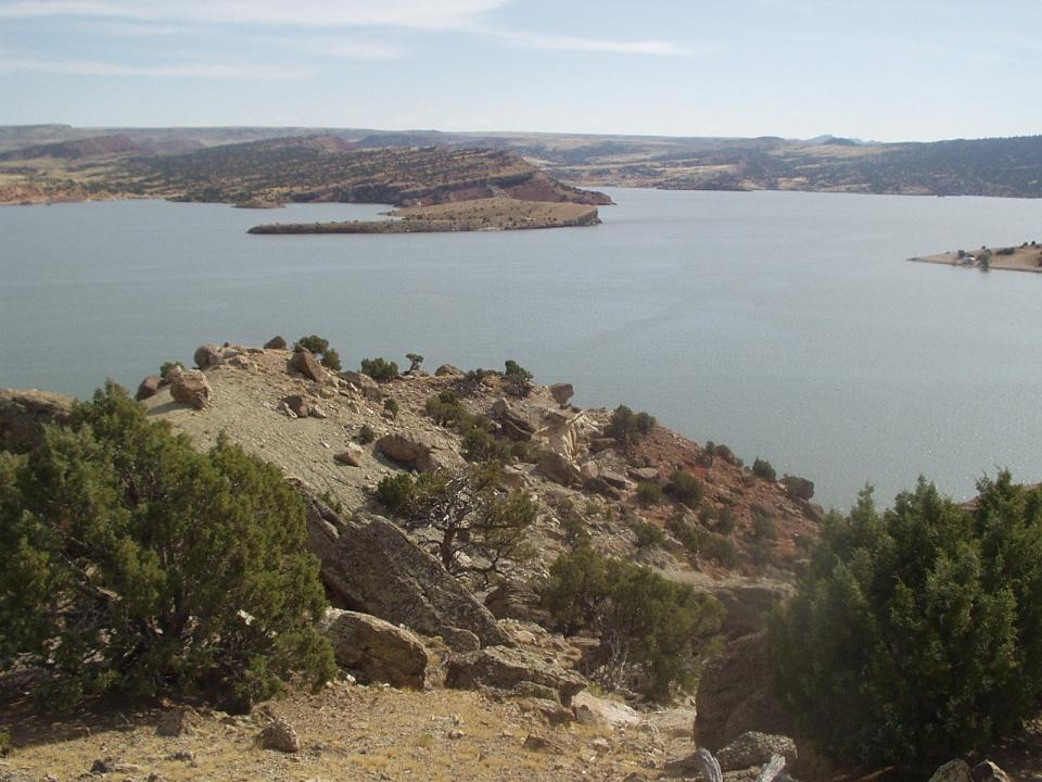 View of Alcova Reservoir near Casper, Wyoming in late September.